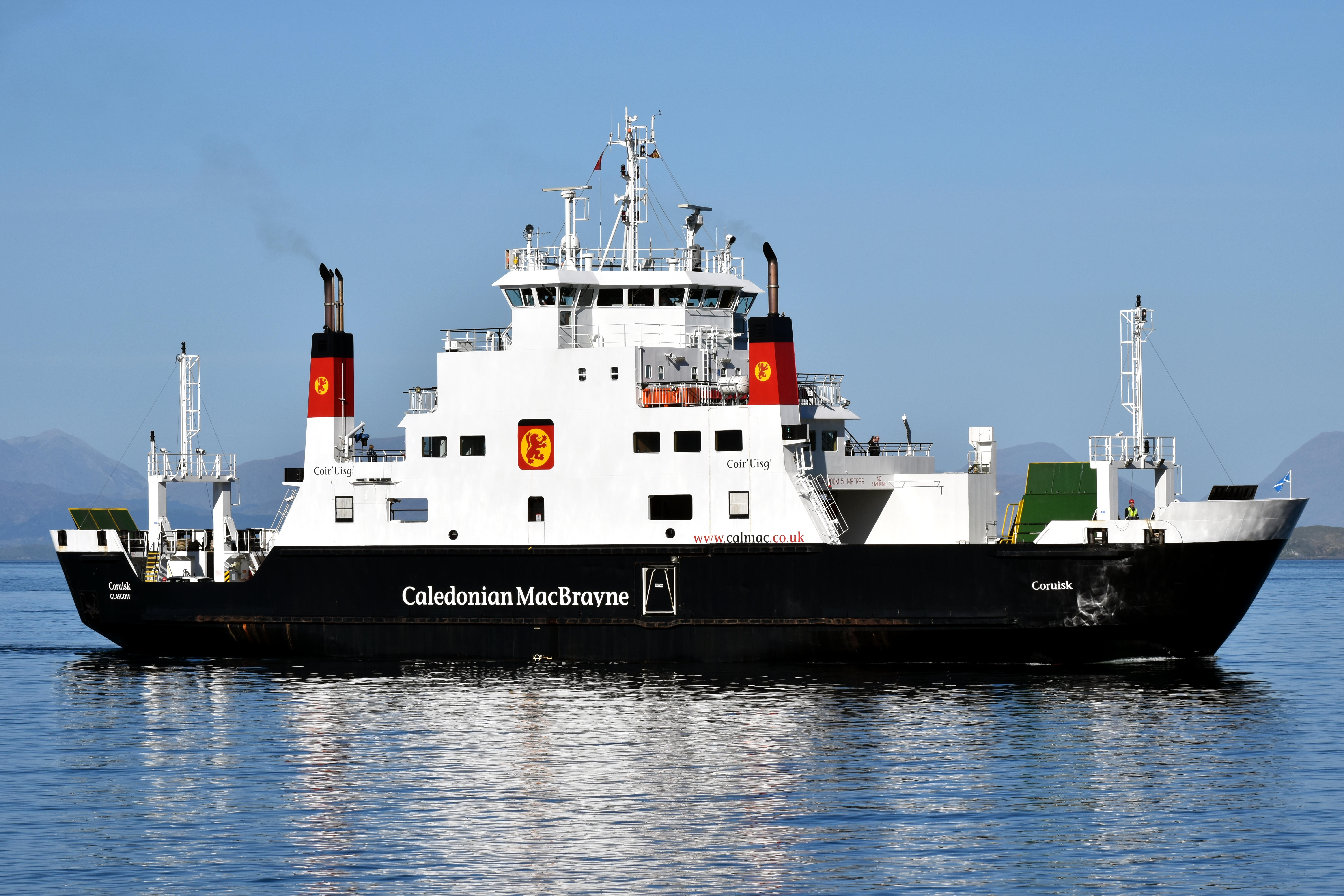 The CalMac ferry MV Coruisk, originally built for the Mallaig to Armadale service, arrives at Craignure on the Isle of Mull after one of her regular sailings from Oban, 8 May 2017.